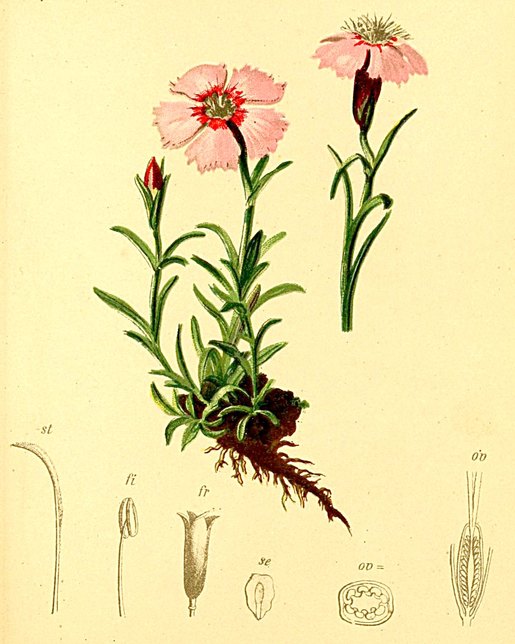 Dianthus alpinus